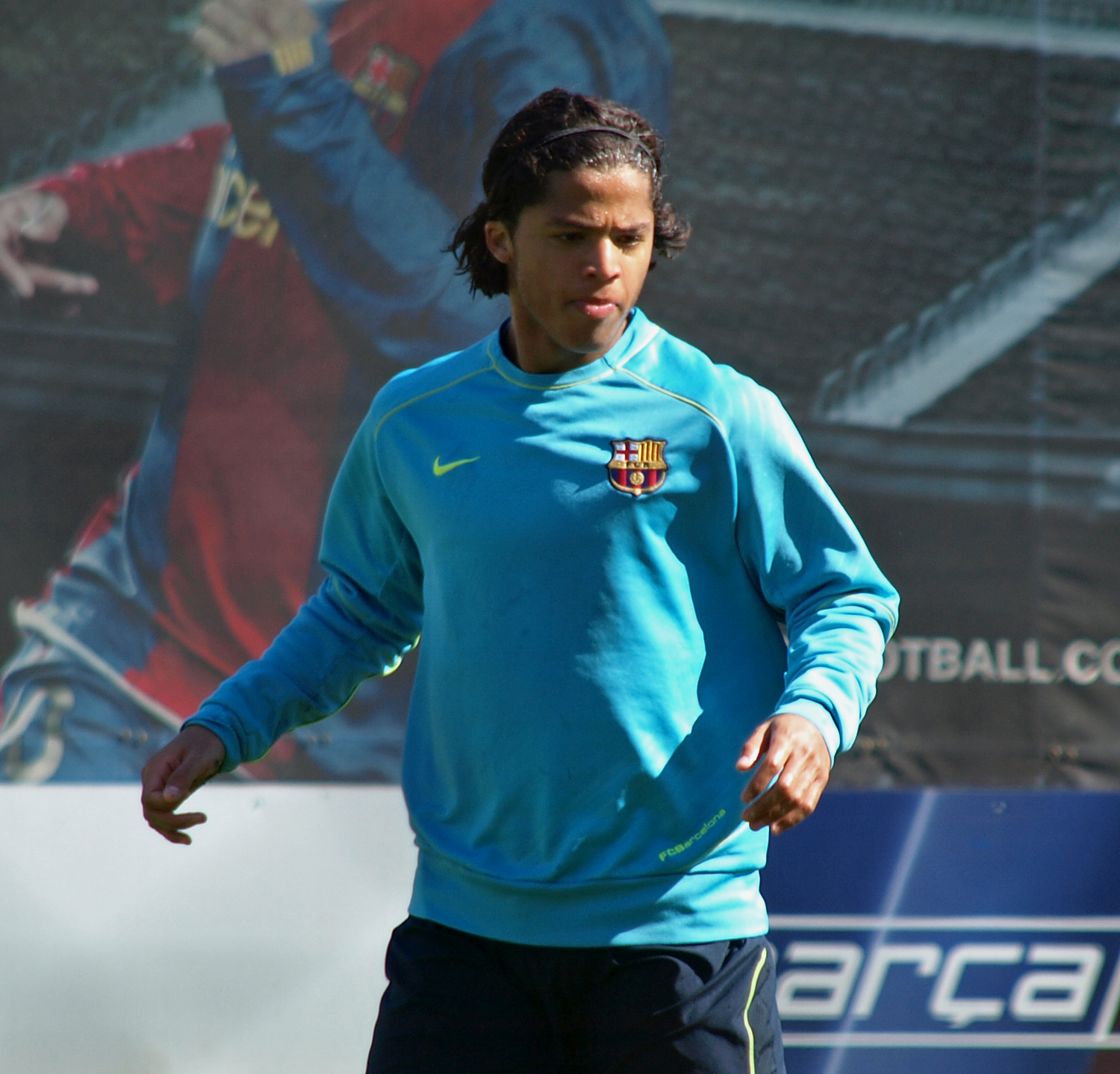 Giovani dos Santos (born May 11, 1989 in Monterrey, Nuevo León, Mexico) is a Mexican attacking midfielder, who can also play forward, who plays for FC Barcelona and the Mexican national team.